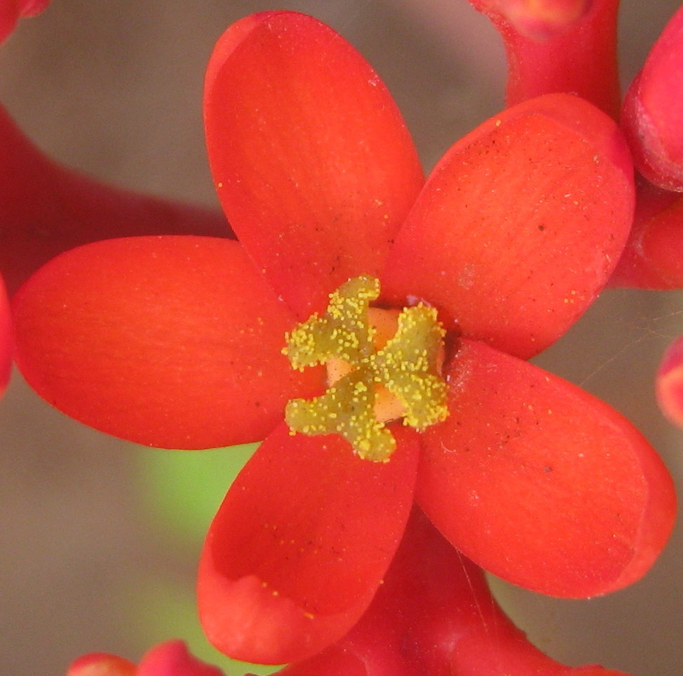 Close-up of a female flower of Jatropha podagrica (Euphorbiaceae).